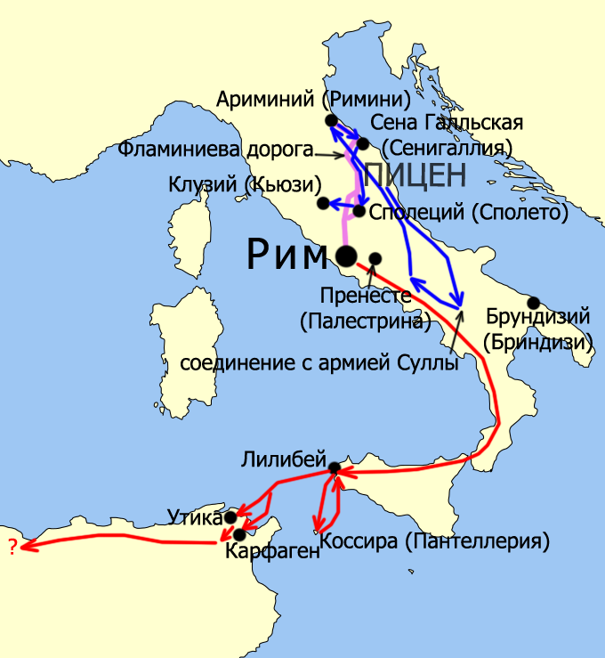 Map of military campaigns of Gnaeus Pompeius (Magnus) in 83-81 BC, in Russian; based on File:Blank Map - Mediterranean 1.svg (CC-BY-SA 3.0)